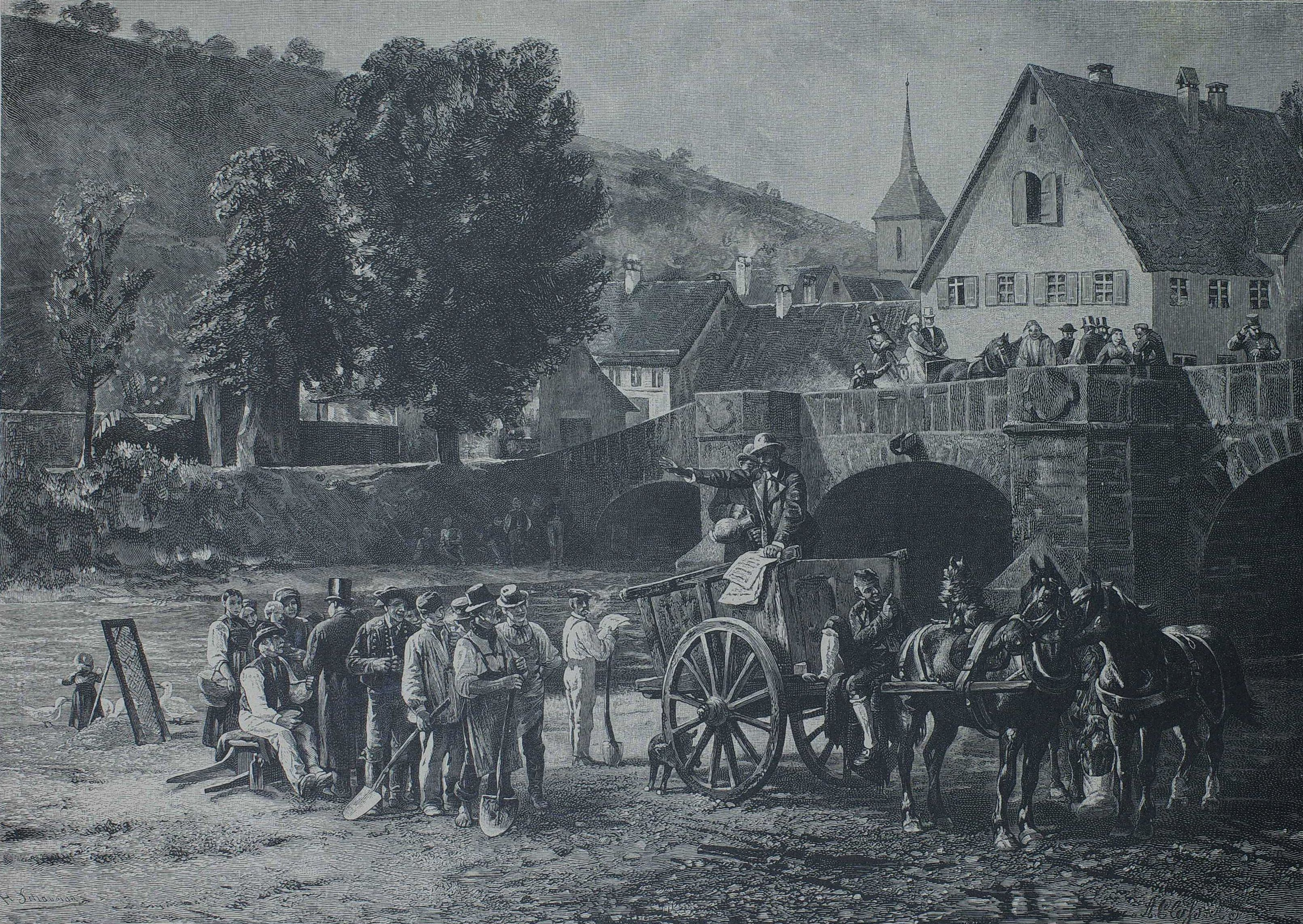 no caption